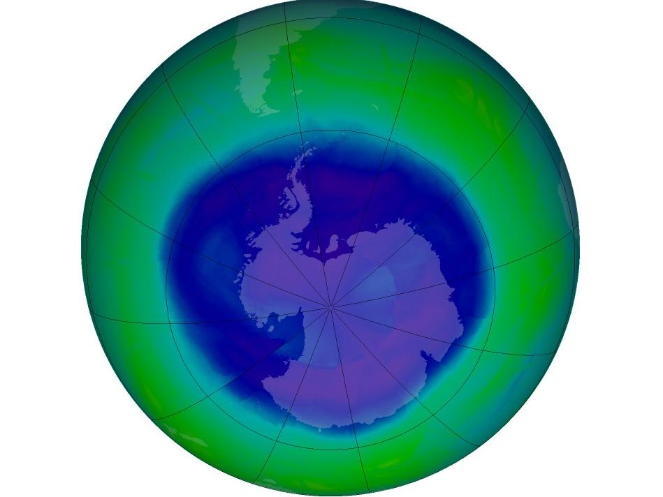 Ozone Hole